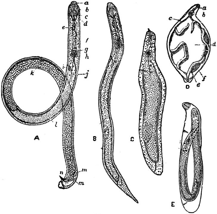 Heterodera schachtii (see legend below).